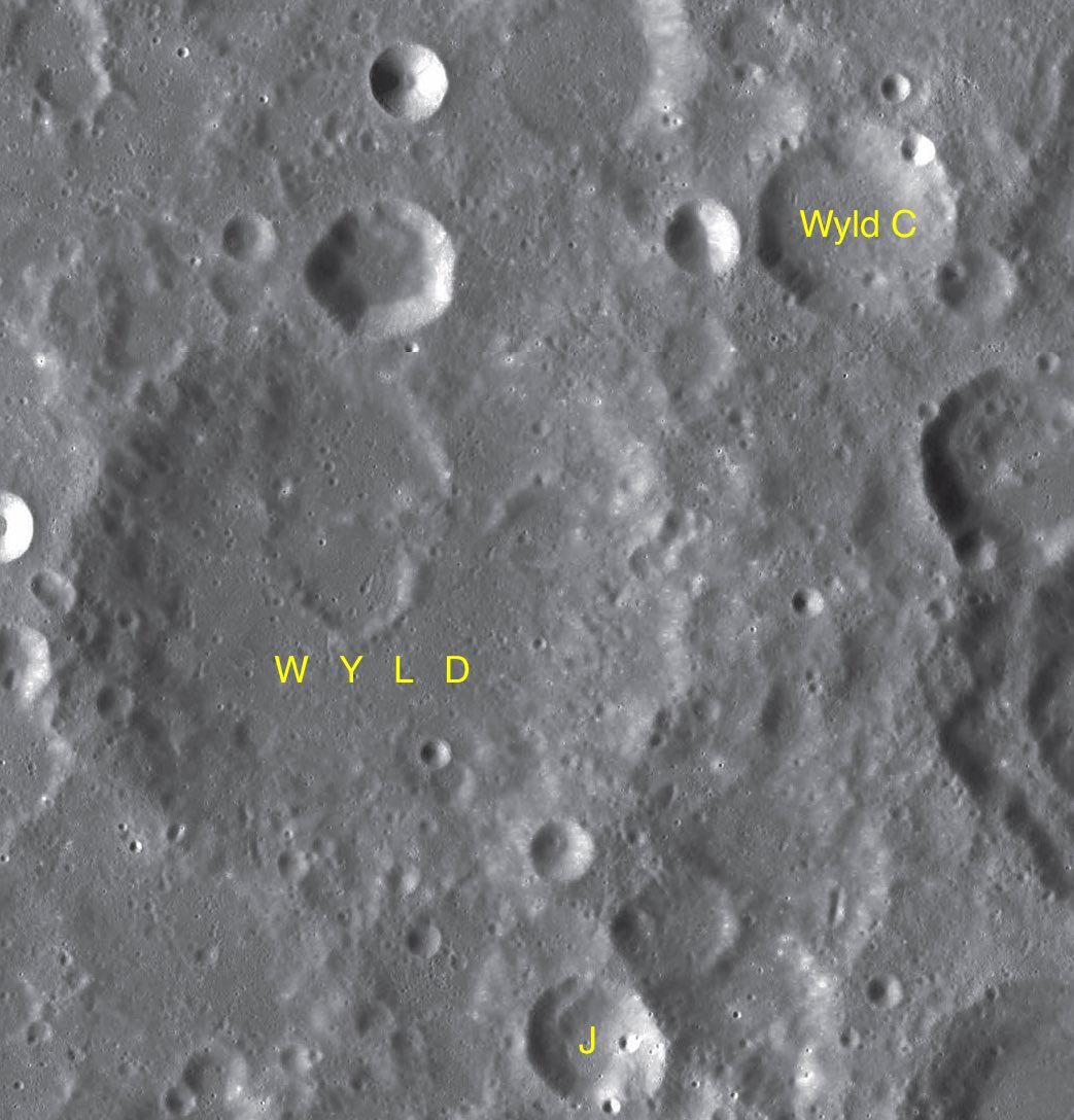 Parts of the charts LAC-64, LAC-82 used for the presentation.